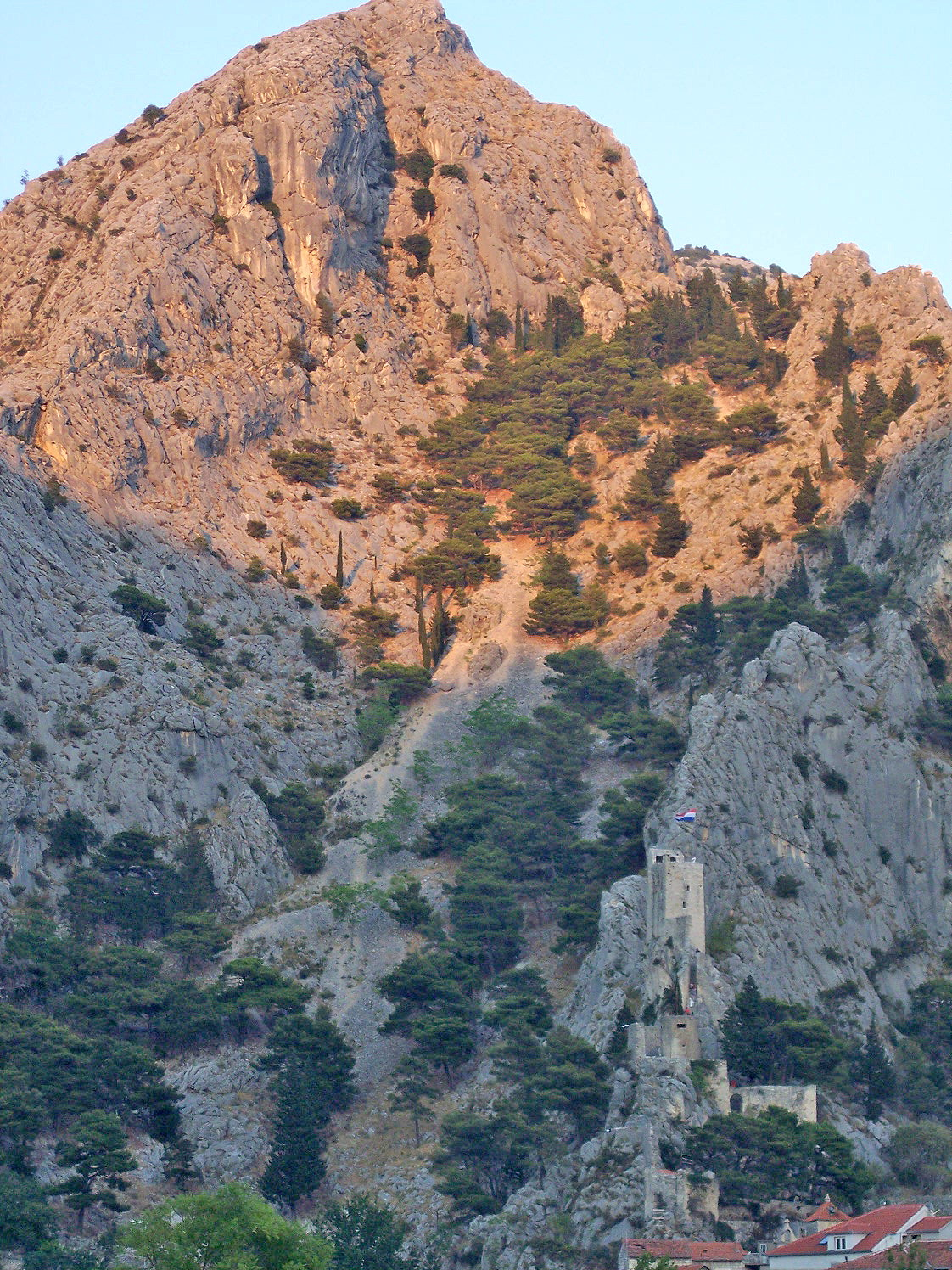 Omiš in Croatia